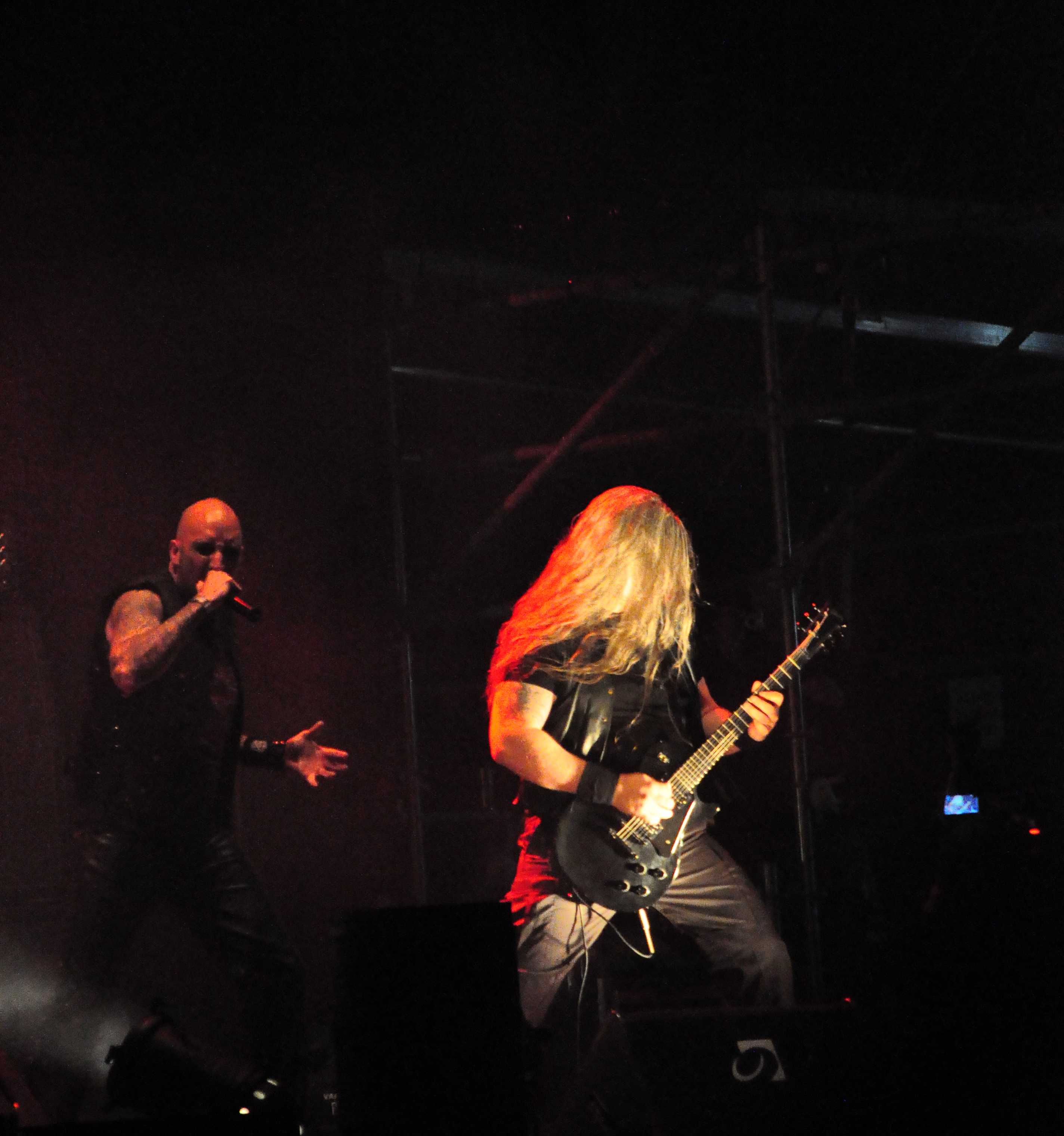 Naglfar at Party.San Open Air 2012